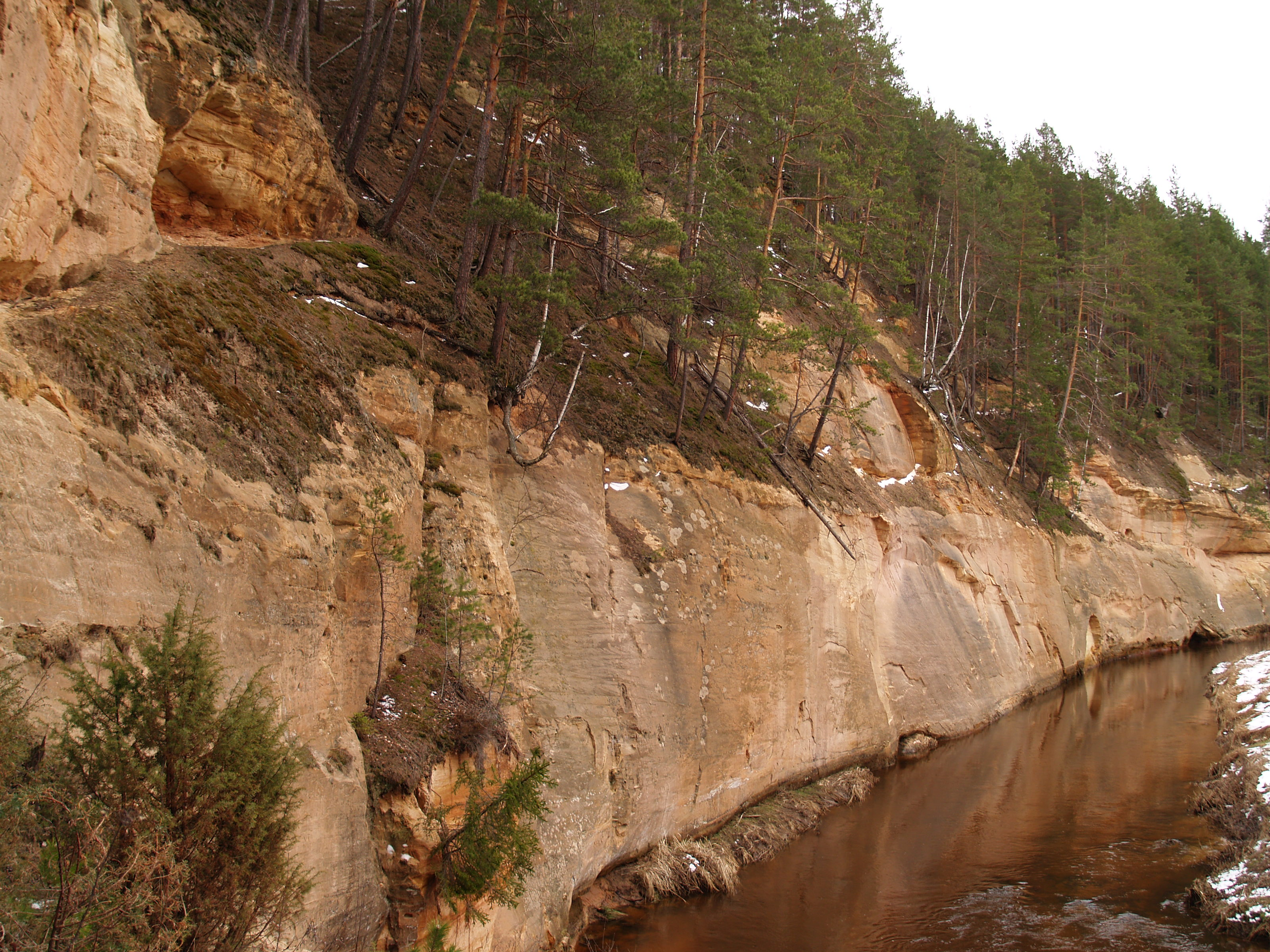 Wall of Härma at Võrumaa, Estonia. In the valley of river Piusa.